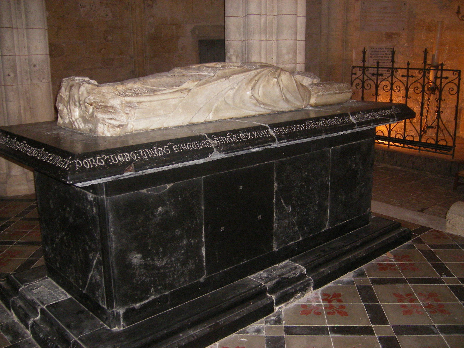 Collegiale of Uzeste - tomb of pope Clement V.